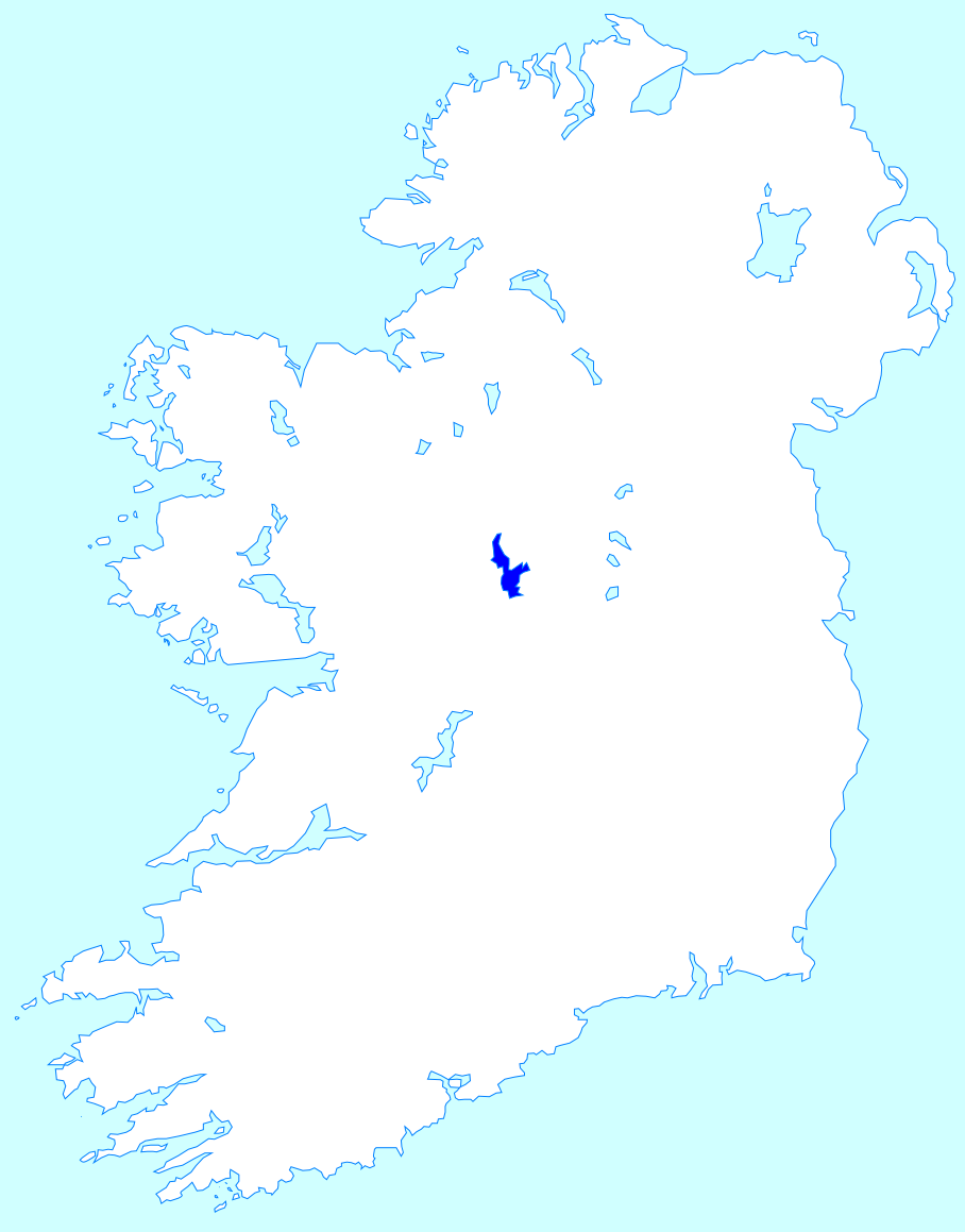 Location map of the Lough Ree in Ireland